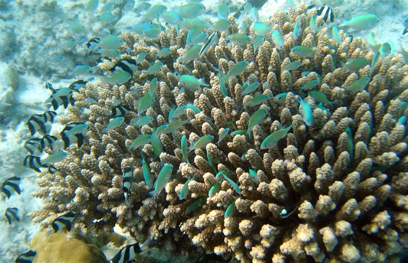 Blue-green Chromis (Chromis viridis en ) hiding in the coral. On the left some Humbug Damselfishes (Dascyllus aruanus en ).